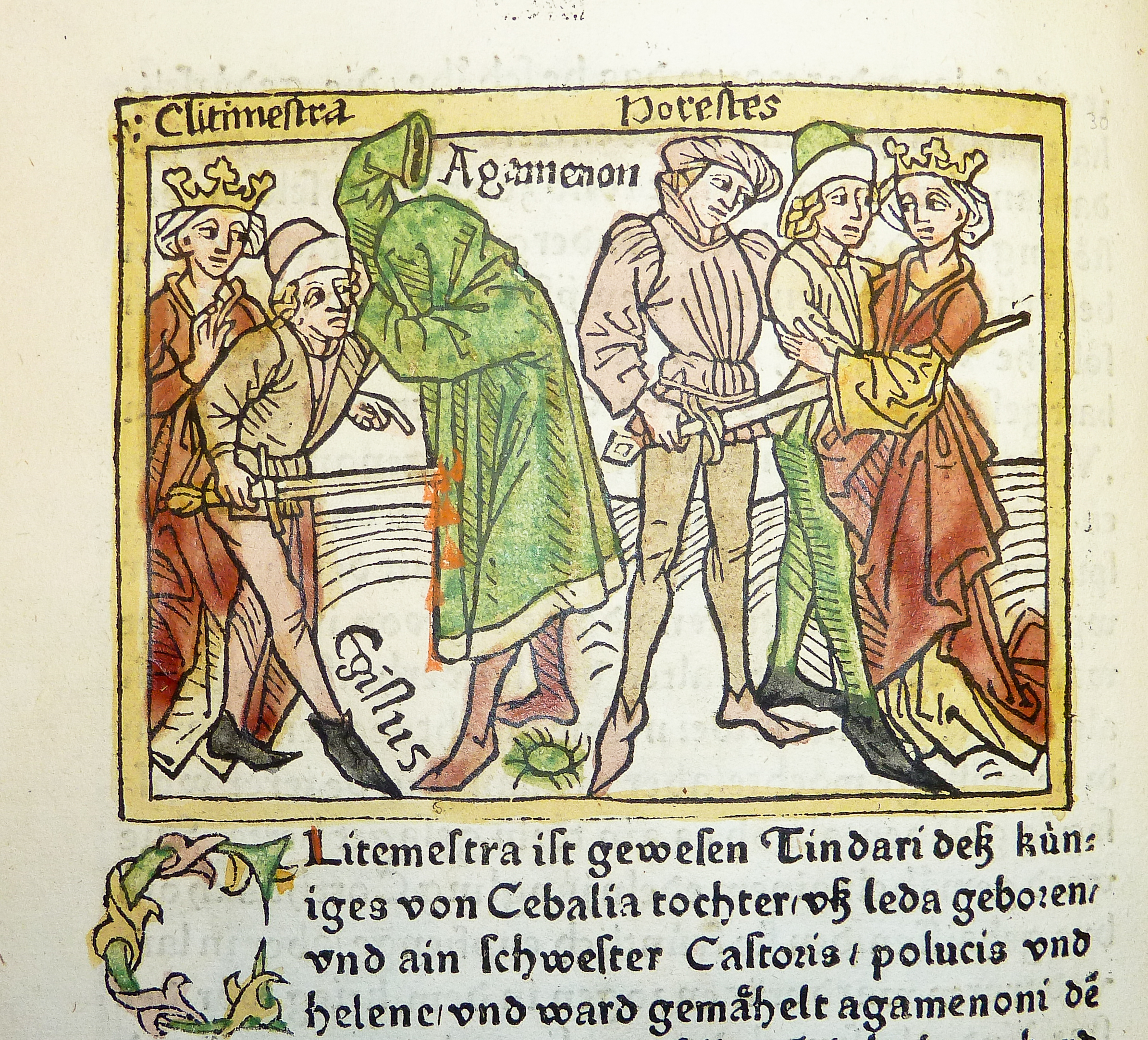 Woodcut illustration (leaf [f]6v, f. xlvj) of Clytemnestra and Aegisthus murdering Agamemnon and their subsequent deaths at the hand of Orestes, hand-colored in red, green, yellow and black, from an incunable German translation by Heinrich Steinhöwel of Giovanni Boccaccio's De mulieribus claris, printed by Johannes Zainer at Ulm ca. 1474 (cf. ISTC ib00720000). One of 76 woodcut illustrations (1 on leaf [e]8v dated 1473), each 80 x 110 mm., depicting scenes from the life of the women chronicled (for a full list of subjects, cf. W.L. Schreiber, Handbuch der Holz- und Metallschnitte des XV. Jahrhunderts (Nendeln: Kraus Reprints, 1969), no. 3506). "Pour la première moitie le nom se trouve inscrit à côte de la tête de chaque femme, pour le reste il es ajouté entre les deux réglettes. Il n'y en a que trois, qui n'ont qu'un seul trait carré."--Schreiber. Established form: Zainer, Johannes, ‡d d. 1541?. Established form: Clytemnestra (Greek mythology) Established form: Aegisthus (Greek mythology) Established form: Agamemnon (Greek mythology) Established form: Orestes (Greek mythology) Penn Libraries call number: Inc B-720 All images from this book Penn Libraries catalog record